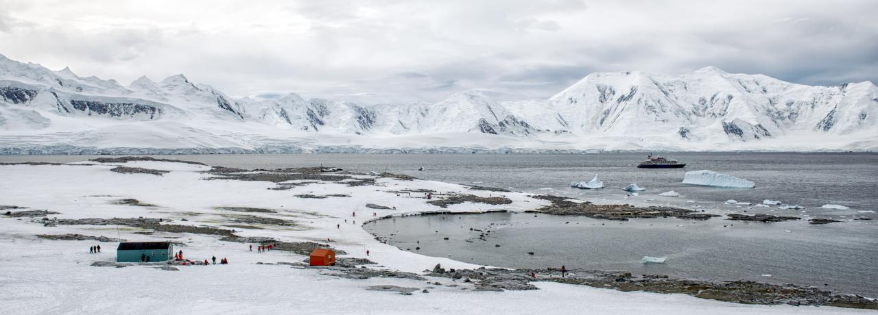 Two structures were erected on the shores of Dorian Bay; the Argentinean Refugio Bahia Dorian in 1957, and a larger building known as the Damoy Hut in 1975, where it served flights to and from a summer-use ice-strip for aircraft used before the sea-ice cleared near Rothera Base. The Damoy hut and ice-strip were closed in 1995: the building is now listed as an Historic Site and Monument and is maintained and administered by the United Kingdom Antarctic Heritage Trust.